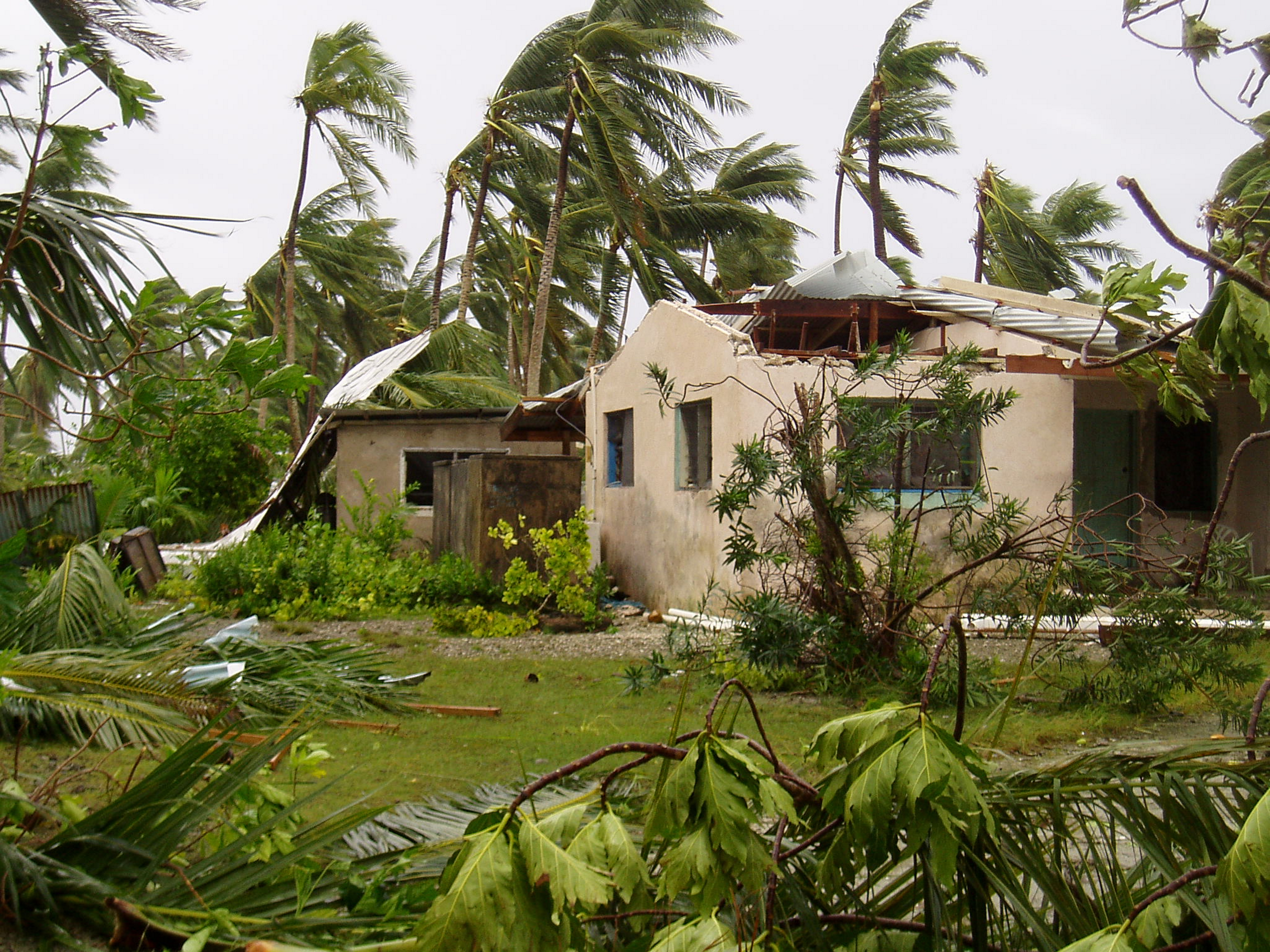 Damaging winds from Cyclone Percy, Tokelau 2005.